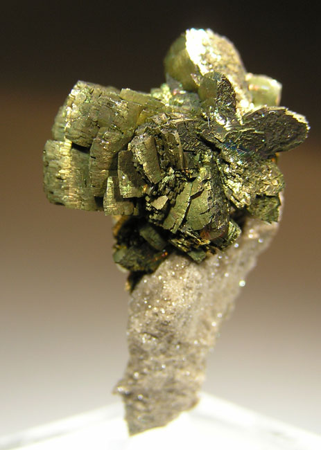 Marcasite Locality: Dundas, Wentworth County, Ontario, Canada (Locality at ) An old Flambrough Quarry piece -- this one, a beautifully irridescent cluster of marcasite crystals (much prettier in person) perched on the edge of a shard of matrix like a flower! 3.3 x 2.1 x 1.4 cm